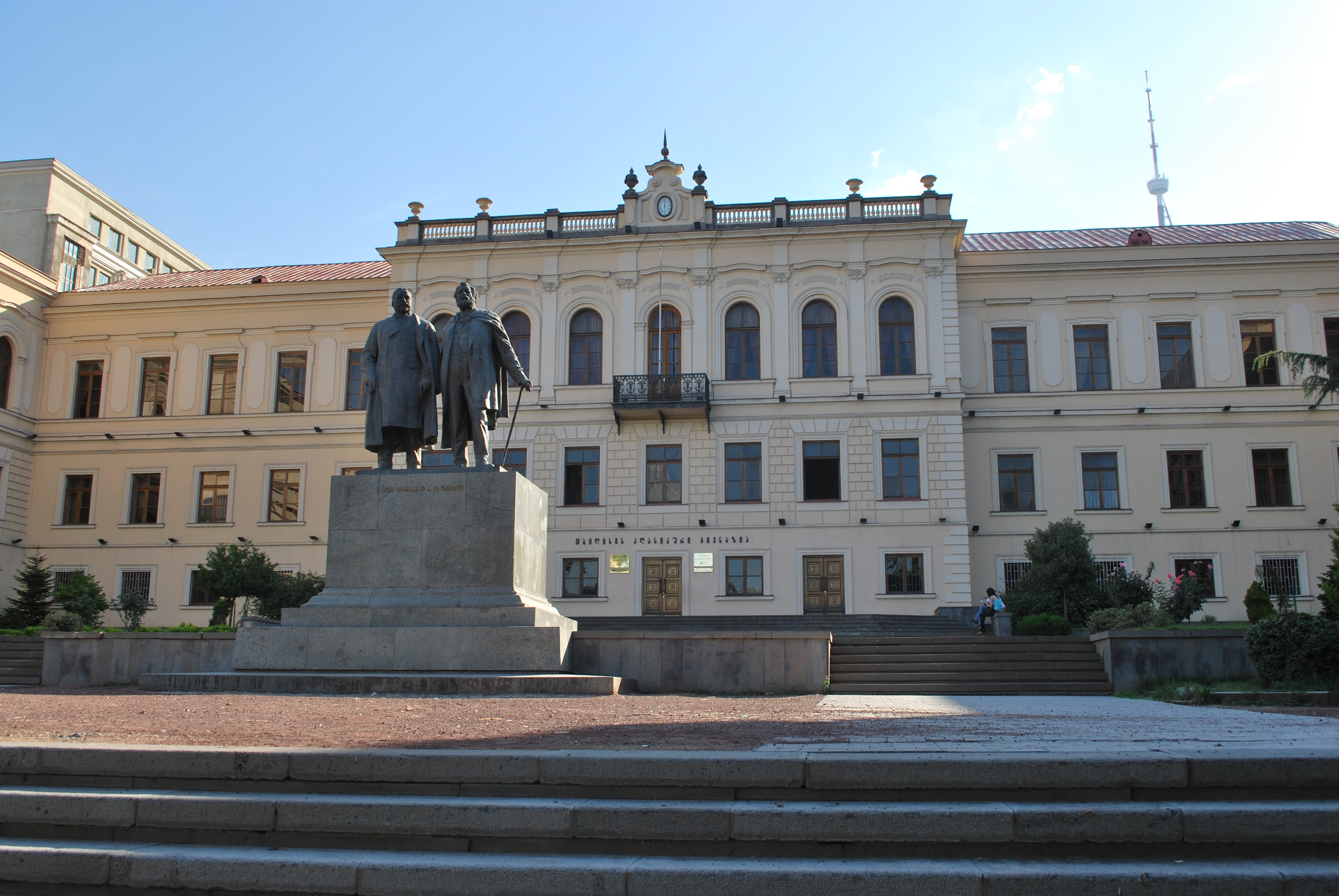 Again, I didn't make a note of which building. I'll happily take corrections in comments!